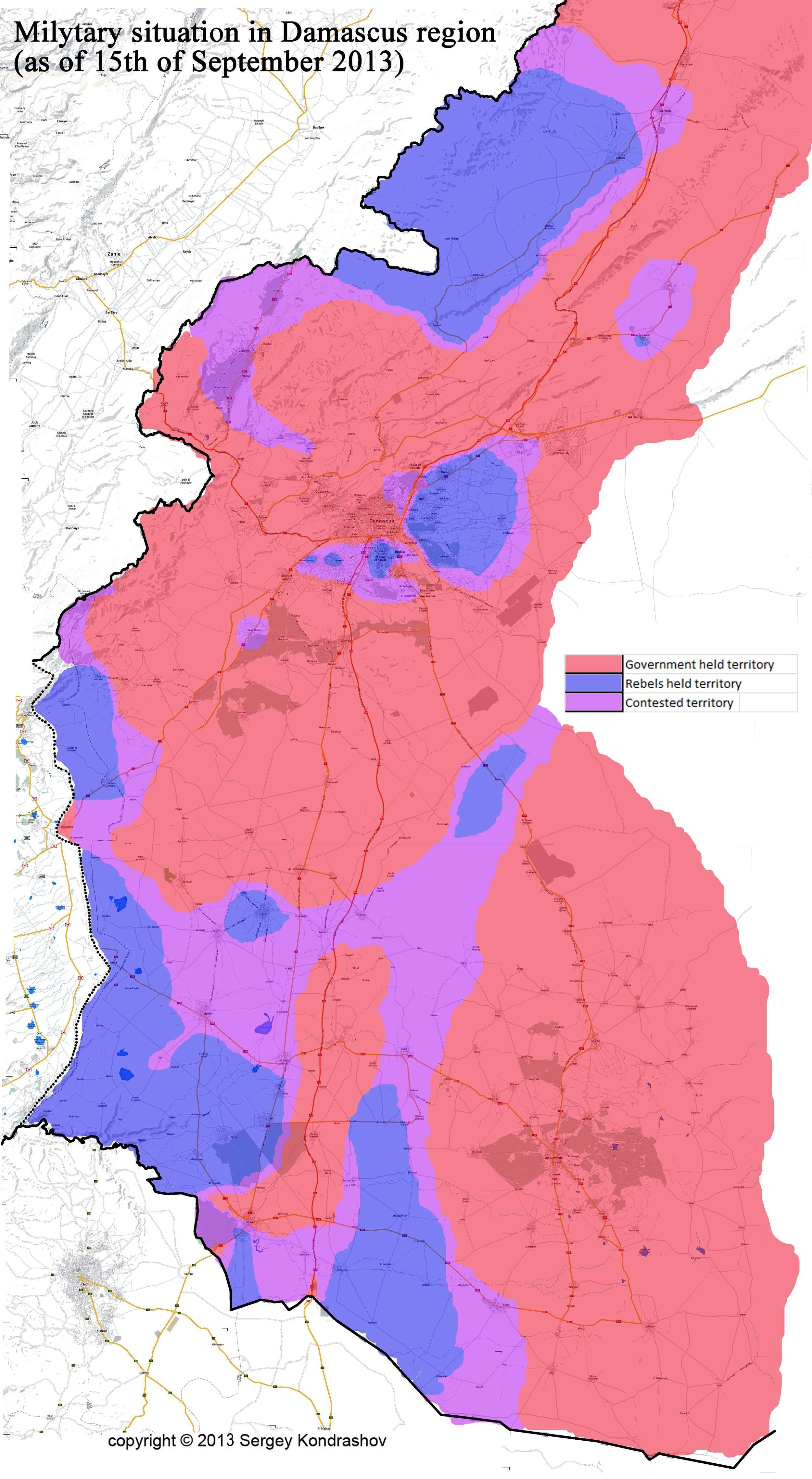 Territories hold by government army, by rebels or under continuous clashes.